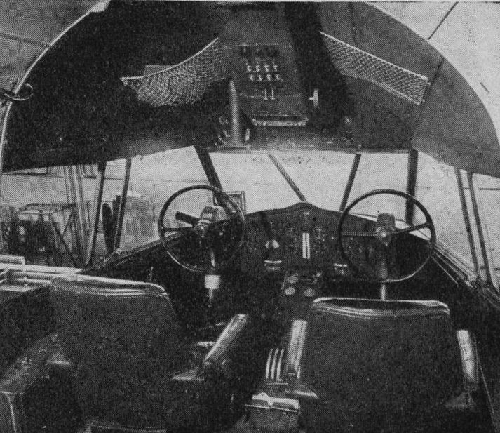 SNCASE SE-200 photo from L'Aerophile September 1945